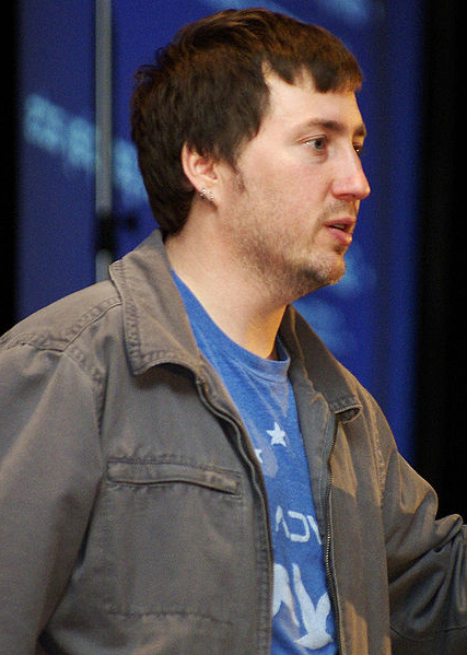 Harvey Smith au Montreal International Games Summit in 2007.